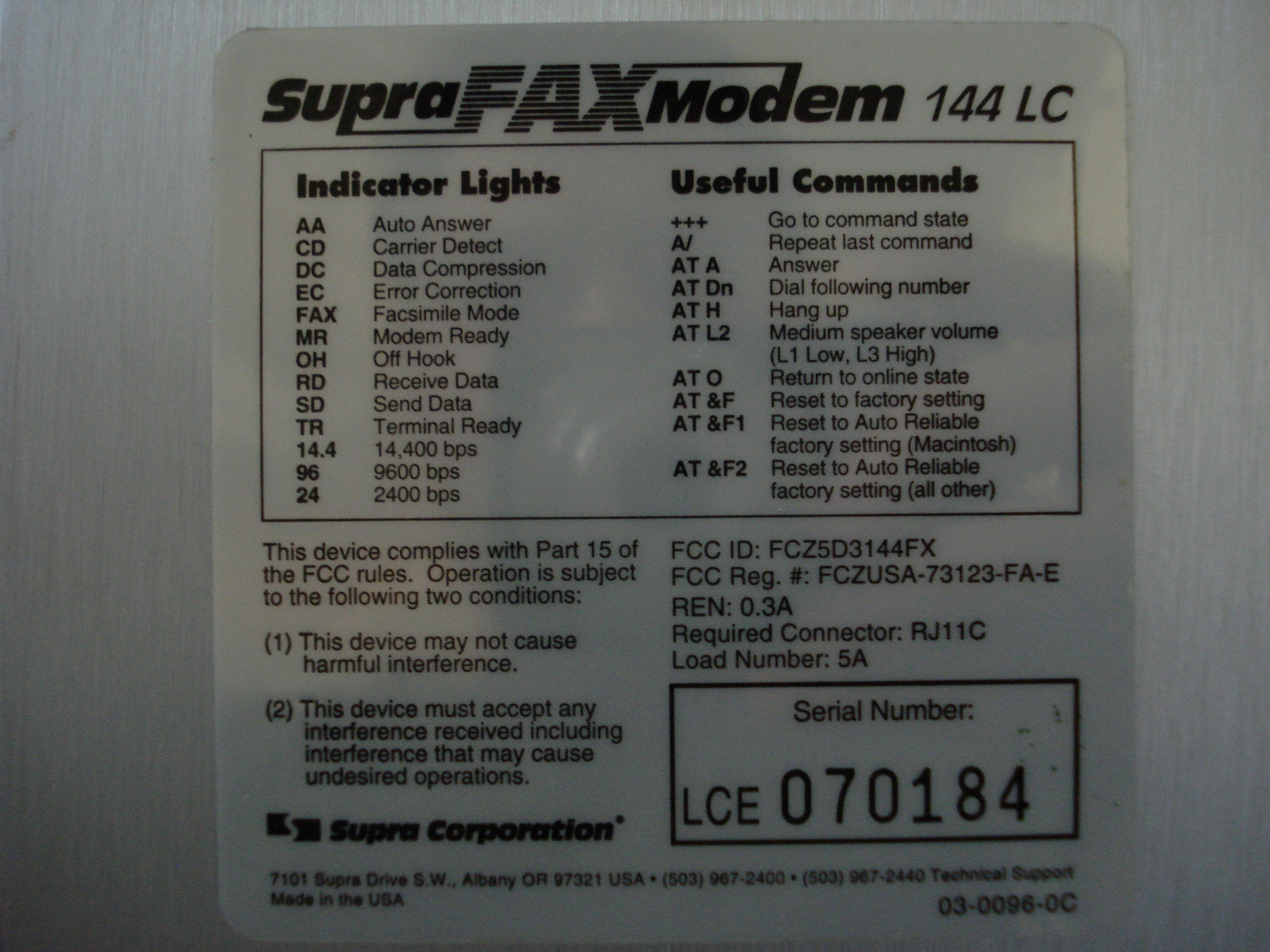 Quickstart guide on bottom of modem